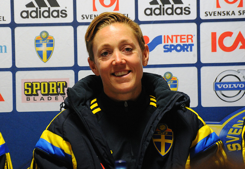 Evergreen Swedish soccer ace Therese Sjögran